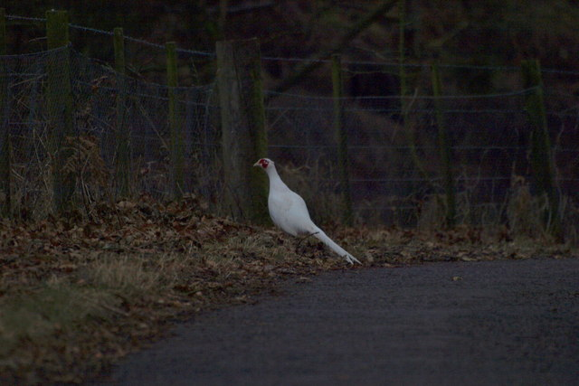 A White Pheasant on Finavon Hill at dusk White pheasants are quite rare.